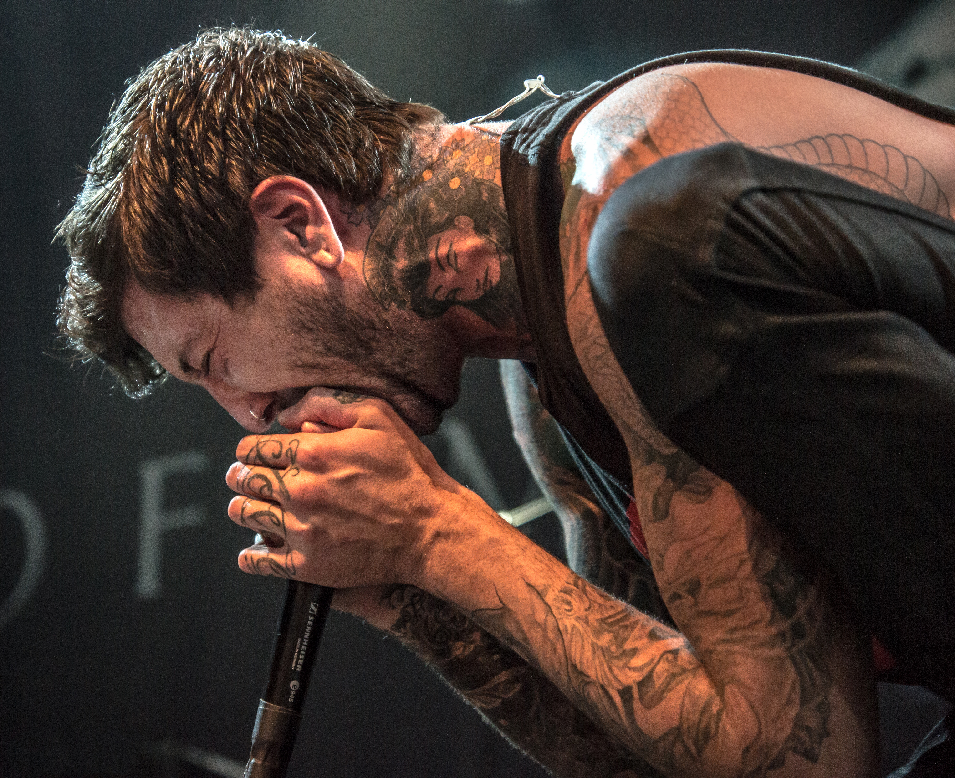 Of Mice and Men